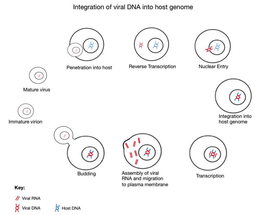 This image shows the basic mechanism by which a virus integrates its genetic information into its host.